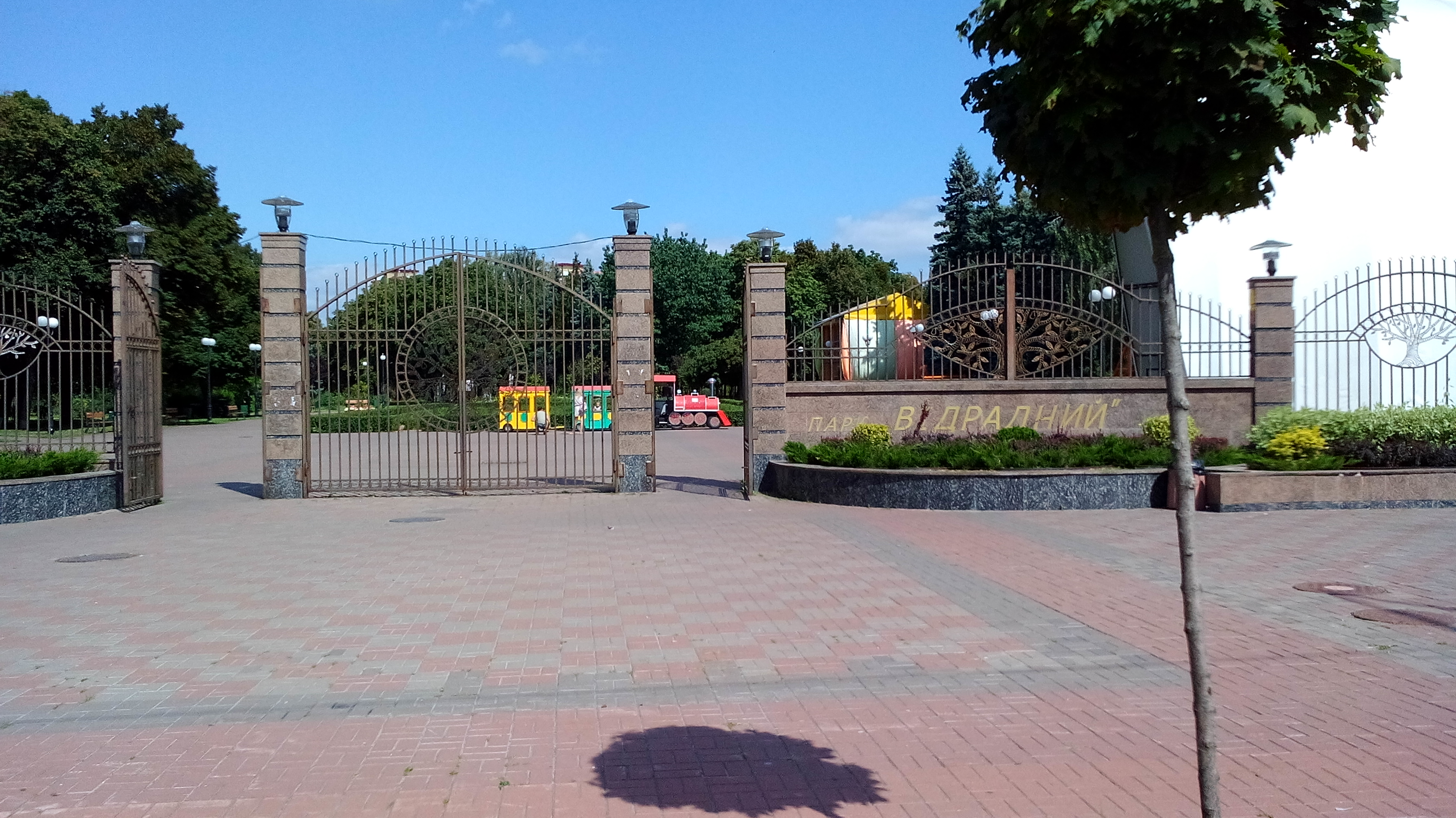 Main entrance to the Otradyj Park in Kiev